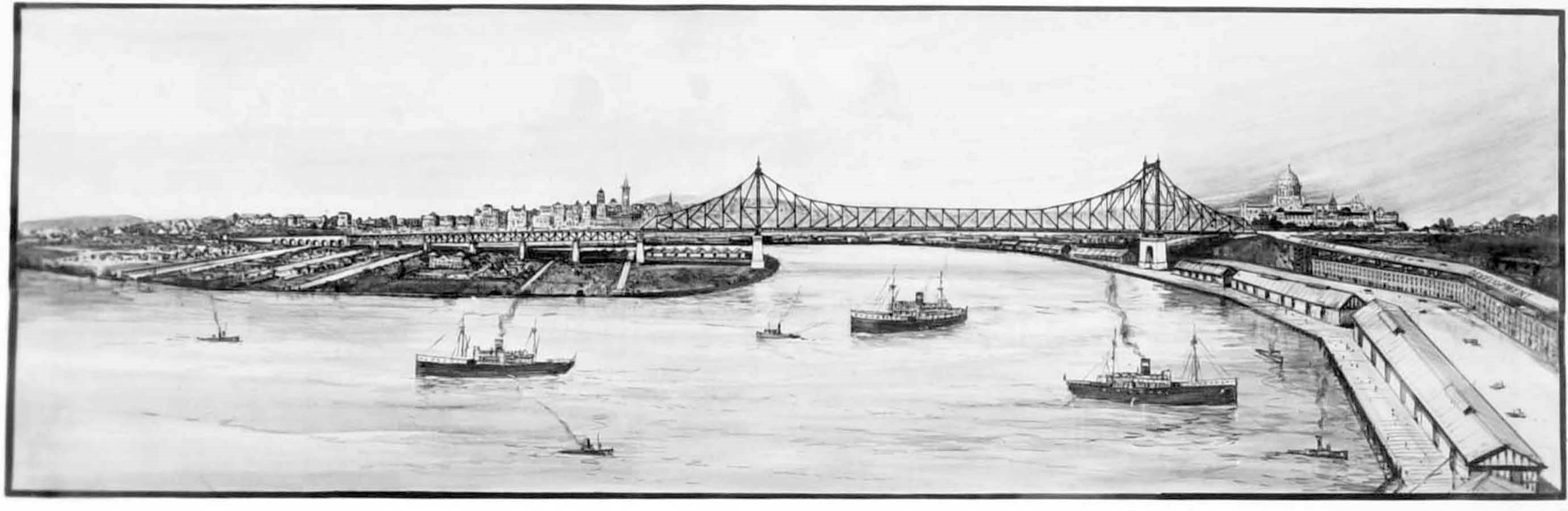 Plans for the Brisbane River Bridge (later named Story Bridge), circa 1934